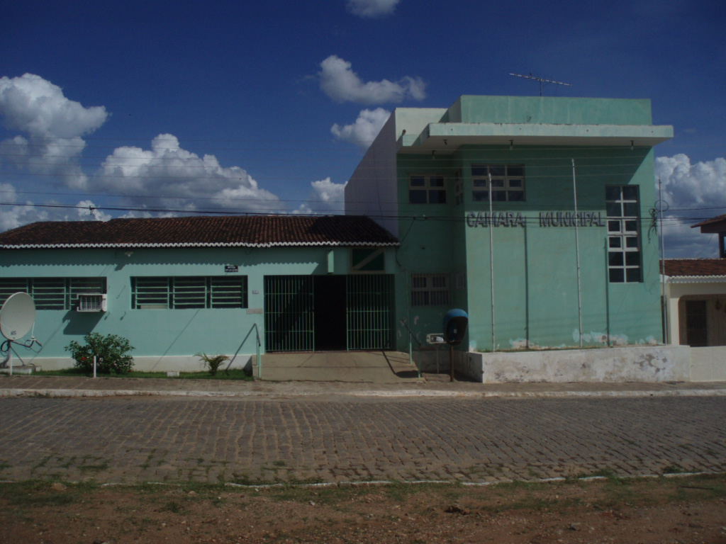 Câmara de Vereadores de Boqueirão, Paraíba